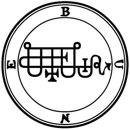 Bune seal, THE BOOK OF THE GOETIA OF SOLOMON THE KING (1904)